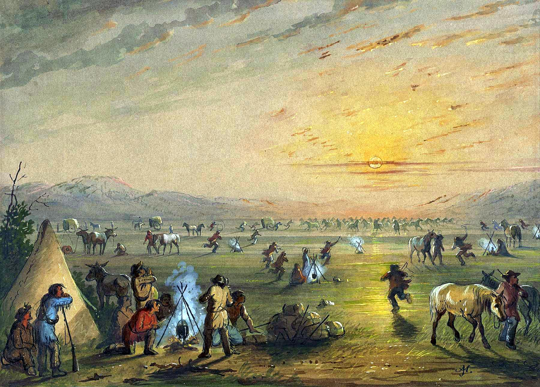 Catching-Up, painting of Alfred-Jacob Miller around 1860